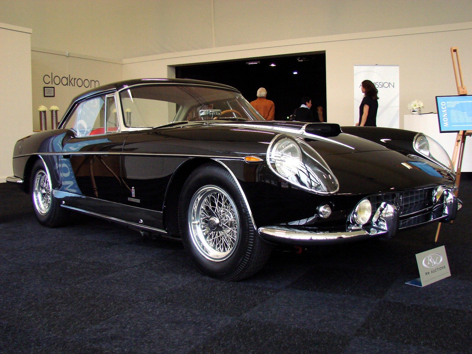 RM Automobiles of London Auction 2009. This is a 1962 Ferrari 400 Superamerica, s/n 3309SA. Displayed at the 1962 autoshows in Geneva, then New York. Sold at an auction in 2015 for 7.6 million USD.[1]